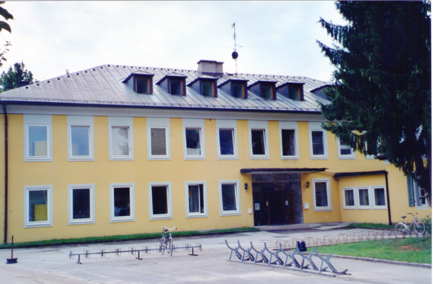 Orff institute in Salzburg